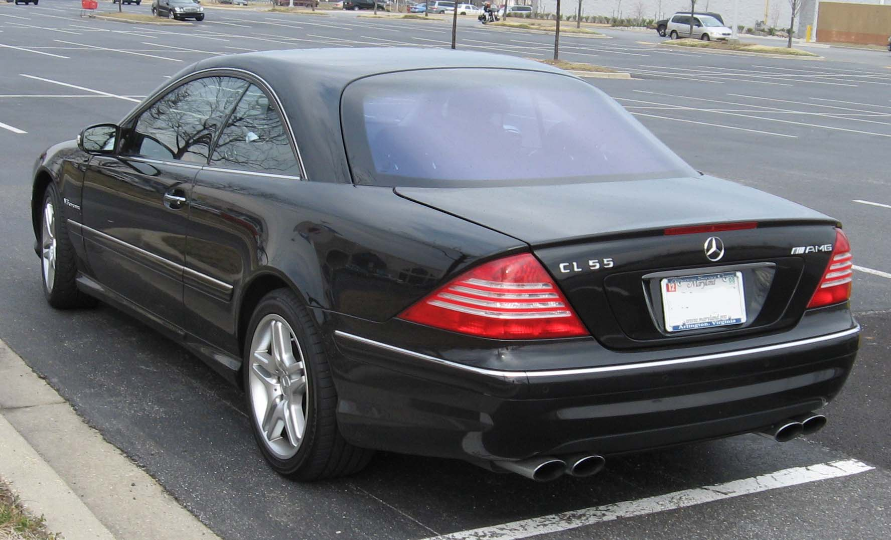 2003 Mercedes-Benz CL55 AMG Kompressor photographed in USA.